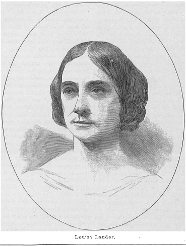 Louisa Lander, American Sculptor